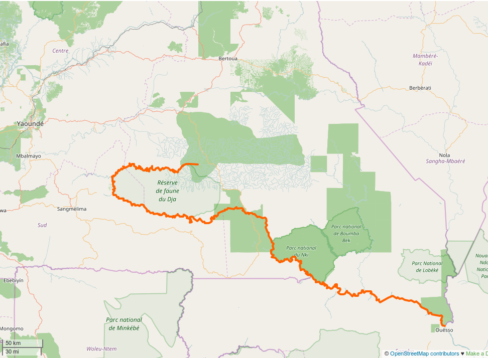 Dja River in Cameroon, with OSM. This map may be incomplete, and may contain errors. Don't rely solely on it for navigation.